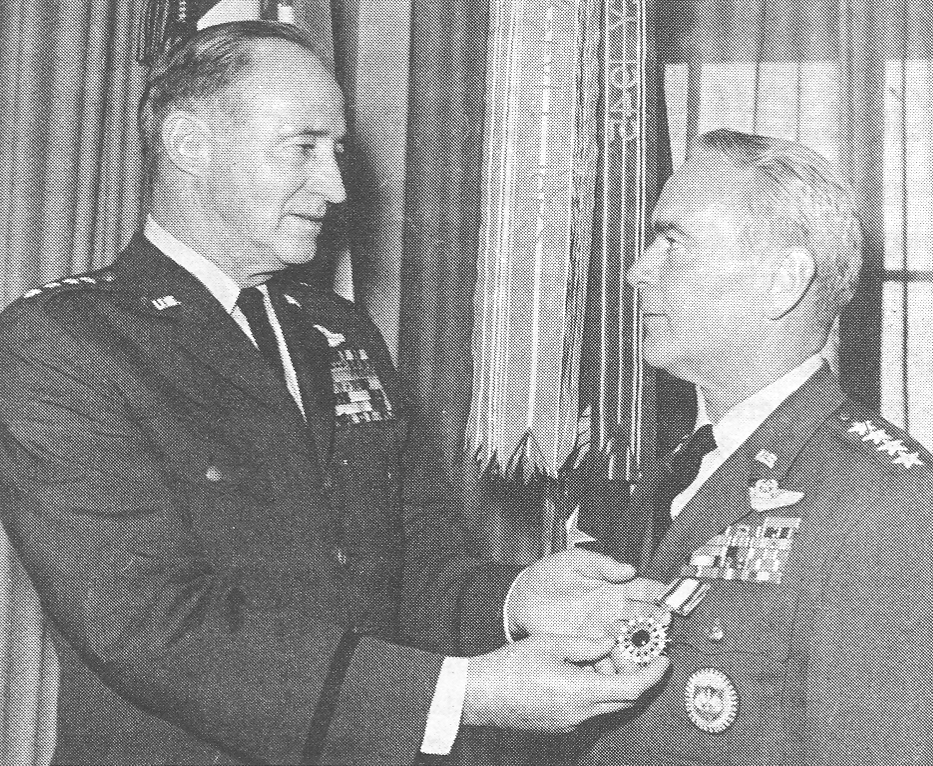 Original caption: MERITORIOUS SERVICE -- Air Force Chief of Staff Gen. John P. McConnell (left) awards the Distinguished Service Medal to Gen. Raymond J. Reeves, Commander-in-Chief, North American Air Defense and Continental Air Defense Command, during recent Pentagon ceremonies. Gen. Reeves was cited for exceptionally meritorious services while Commander-in-Chief, Alaskan Air Command, from Aug. 1, 1963, to July 31, 1966. Department of Defense photo, scanned from Commander's Digest, 1967-05-13, page 3.